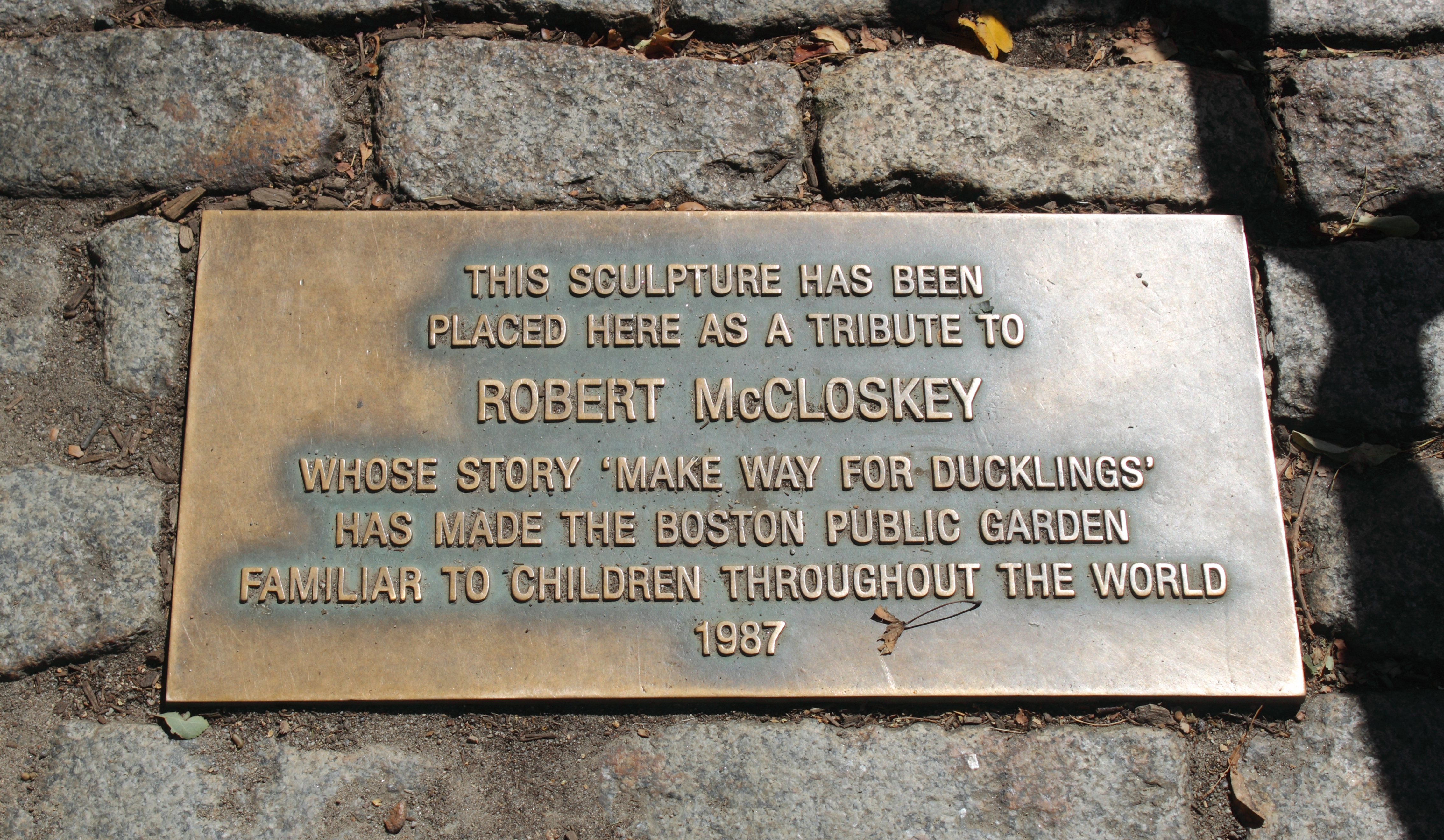 The Plaque at the Make Way for Ducklings statue in Boston